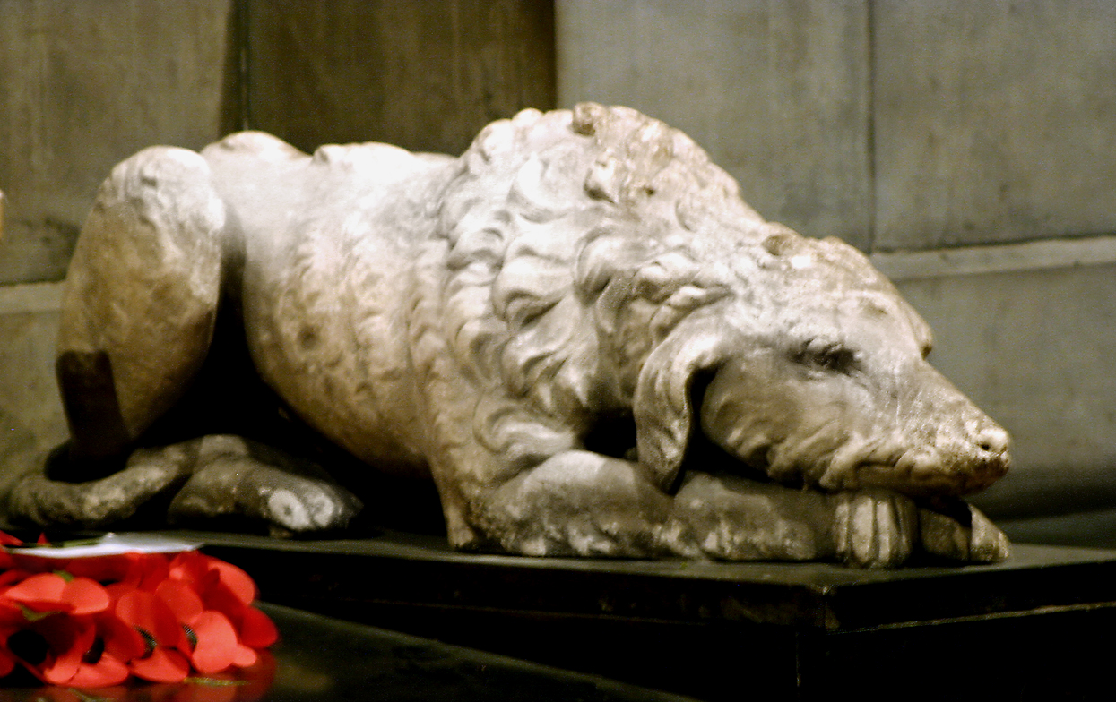 St. Patrick's Cathedral, Dublin. Interior: Statue of an Irish wolfhound